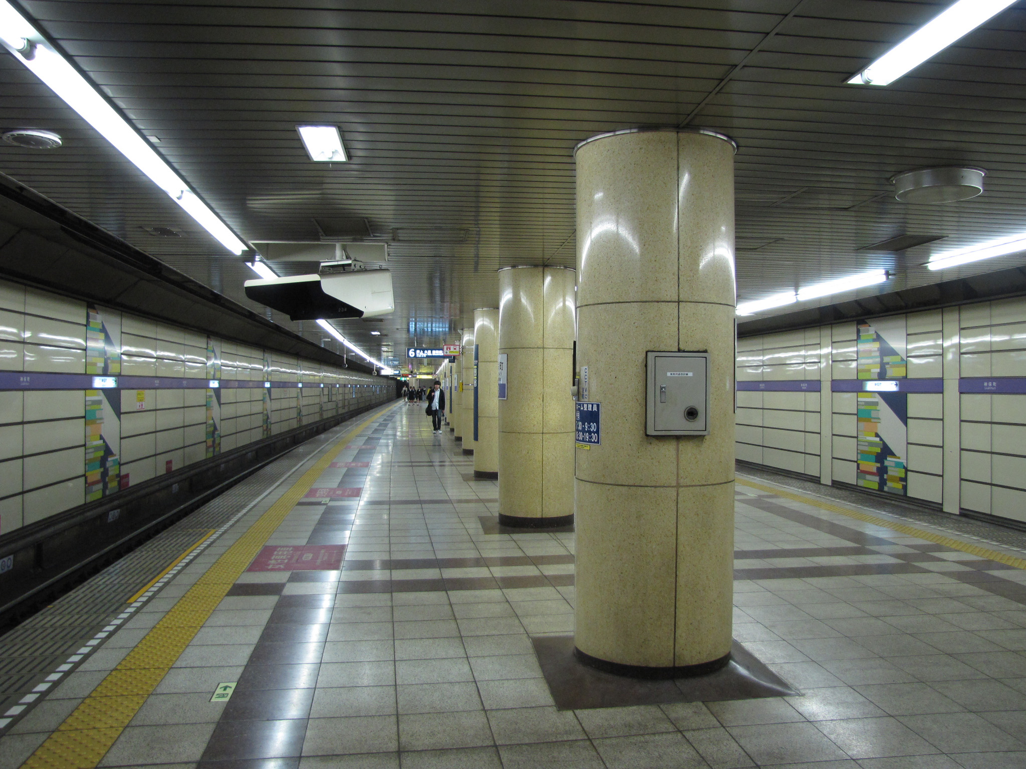 (Japan)Jinbocho Sta. Tokyometro-Hanzomon Line Platform